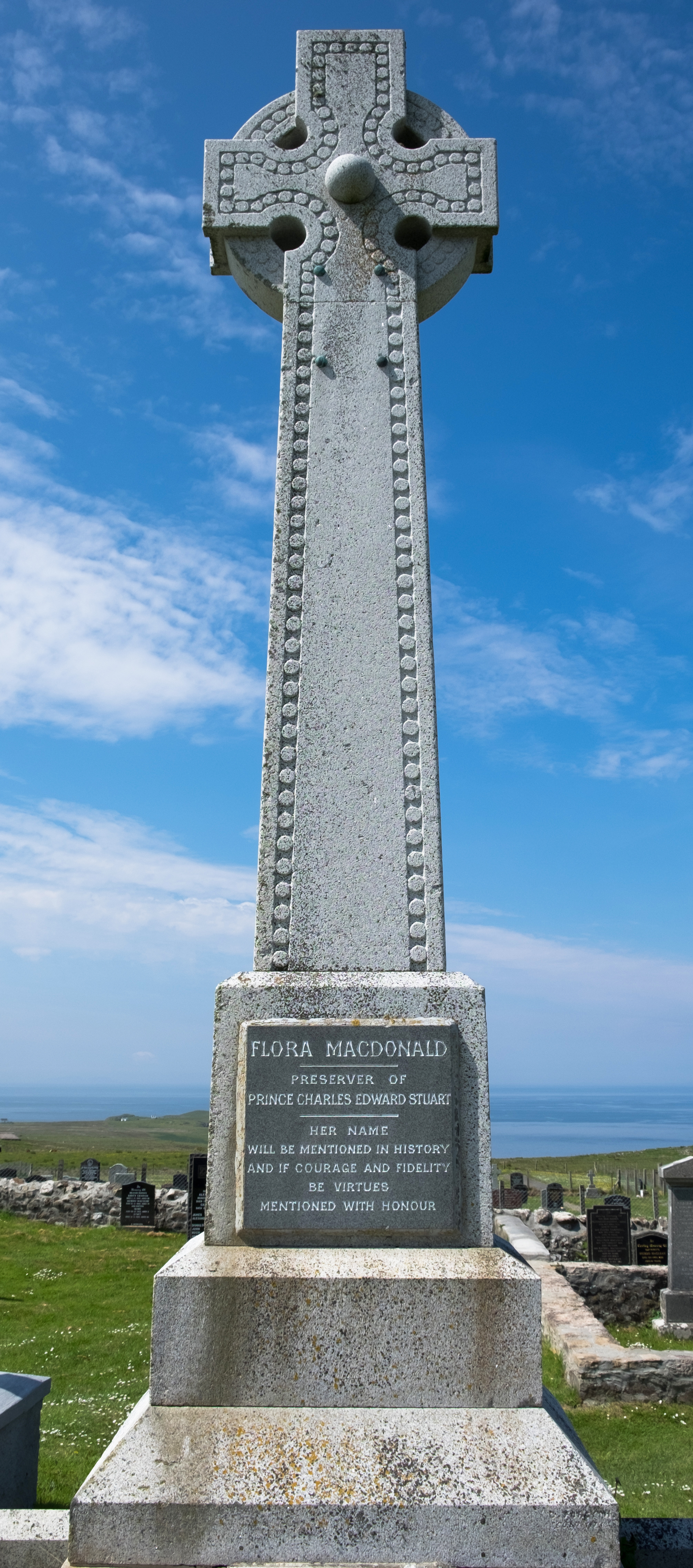 The monument on the grave of Flora MacDonald, Kilmuir, Isle of Skye